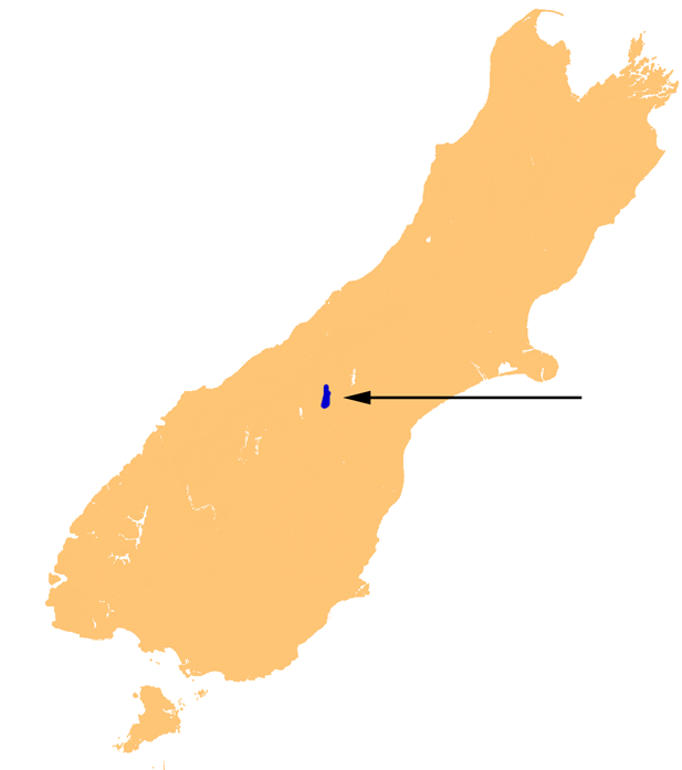 Location map of Lake Pukaki, New Zealand